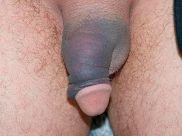 Penile fracture of a 32 y old man. Swollen, ecchymotic, and deviated circumcised penis.